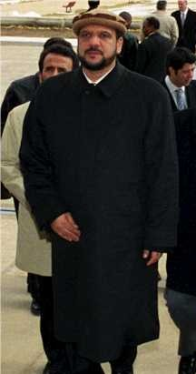 Mohammed Qasim Fahim, a prominent military commander and politician. Formerly minister of defense, he is now a marshal.